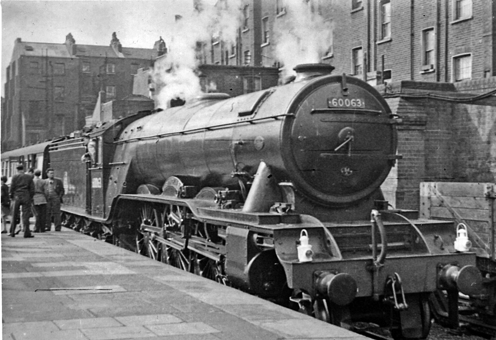 A down Manchester express waiting to leave Marylebone Station. View southward at the end of Platform 4; ex-Great Central London terminus. The 10.00 to Manchester London Road via Sheffield Victoria is waiting to leave, with resplendent A3 Pacific No. 60063 'Isinglass'. (Marylebone was a very quiet terminus in those days, with just four platforms).